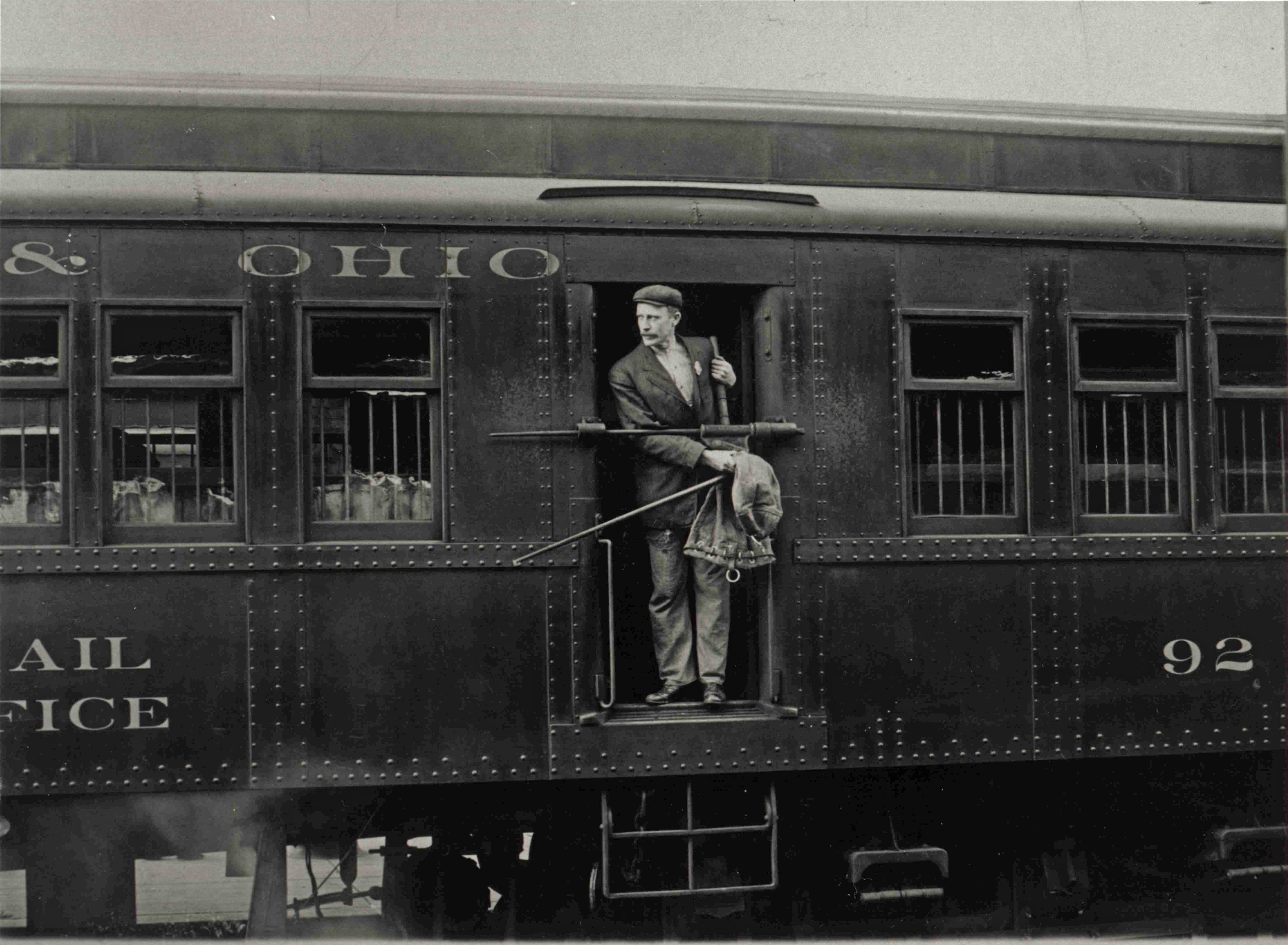 Description: A Railway Post Office clerk is photographed holding a mail pouch and leaning out of a Baltimore & Ohio railroad car next to the car's mail exchange arm, as if waiting to make a mail exchange. Creator/Photographer: Unidentified photographer Medium: Black and white photographic print Culture: American Geography: USA Date: 1913 Collection: U.S. Railway Mail Service Persistent URL: Repository: National Postal Museum Accession number: A.2006-64